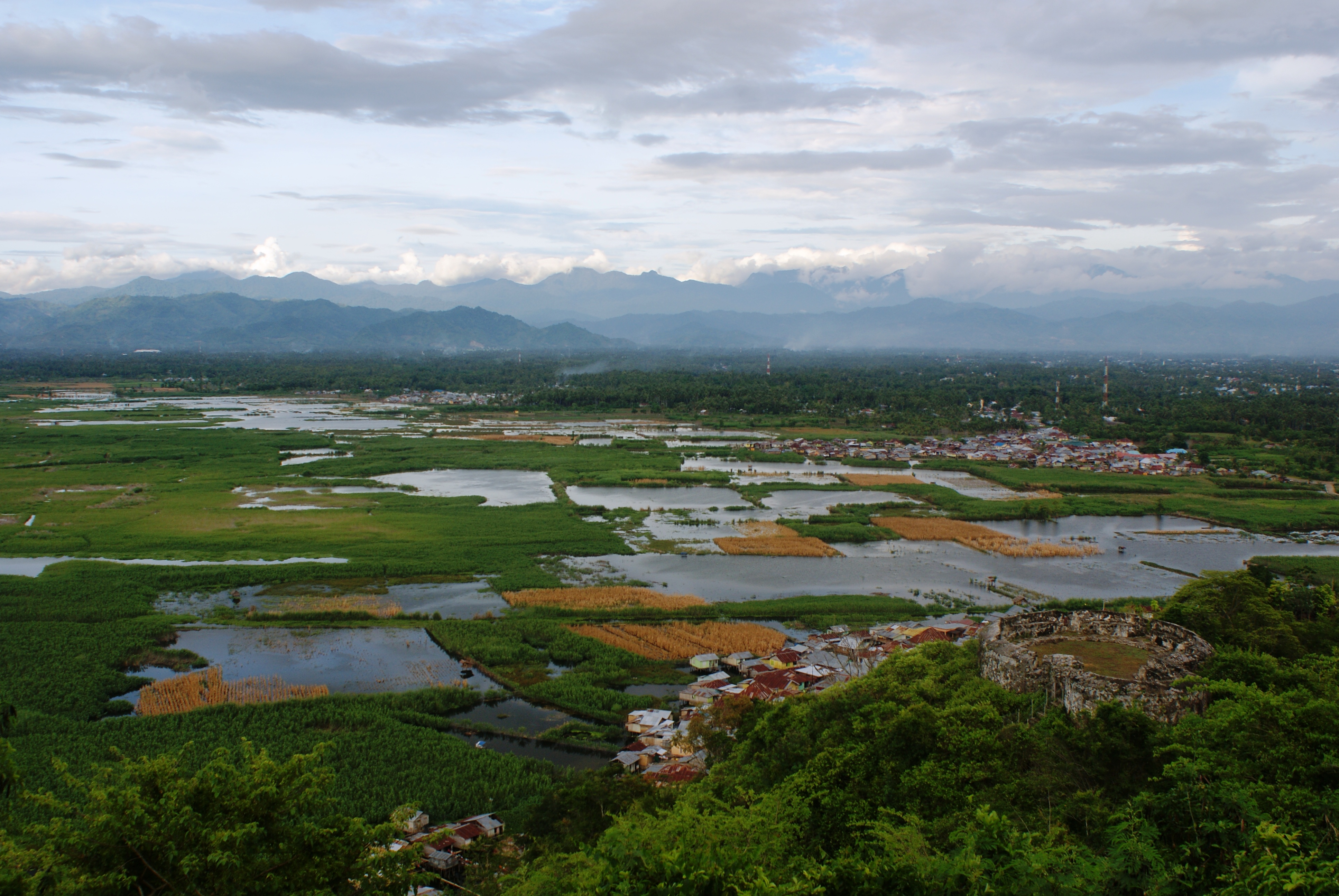 Limboto Lake view from Otanaha fortress, Gorontalo, Indonesia (2011)